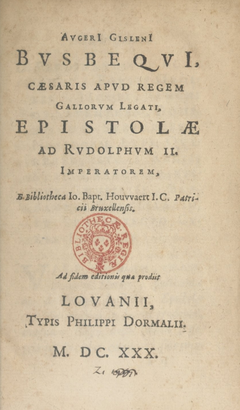 Busbecq, French legation, 1st ed., title page